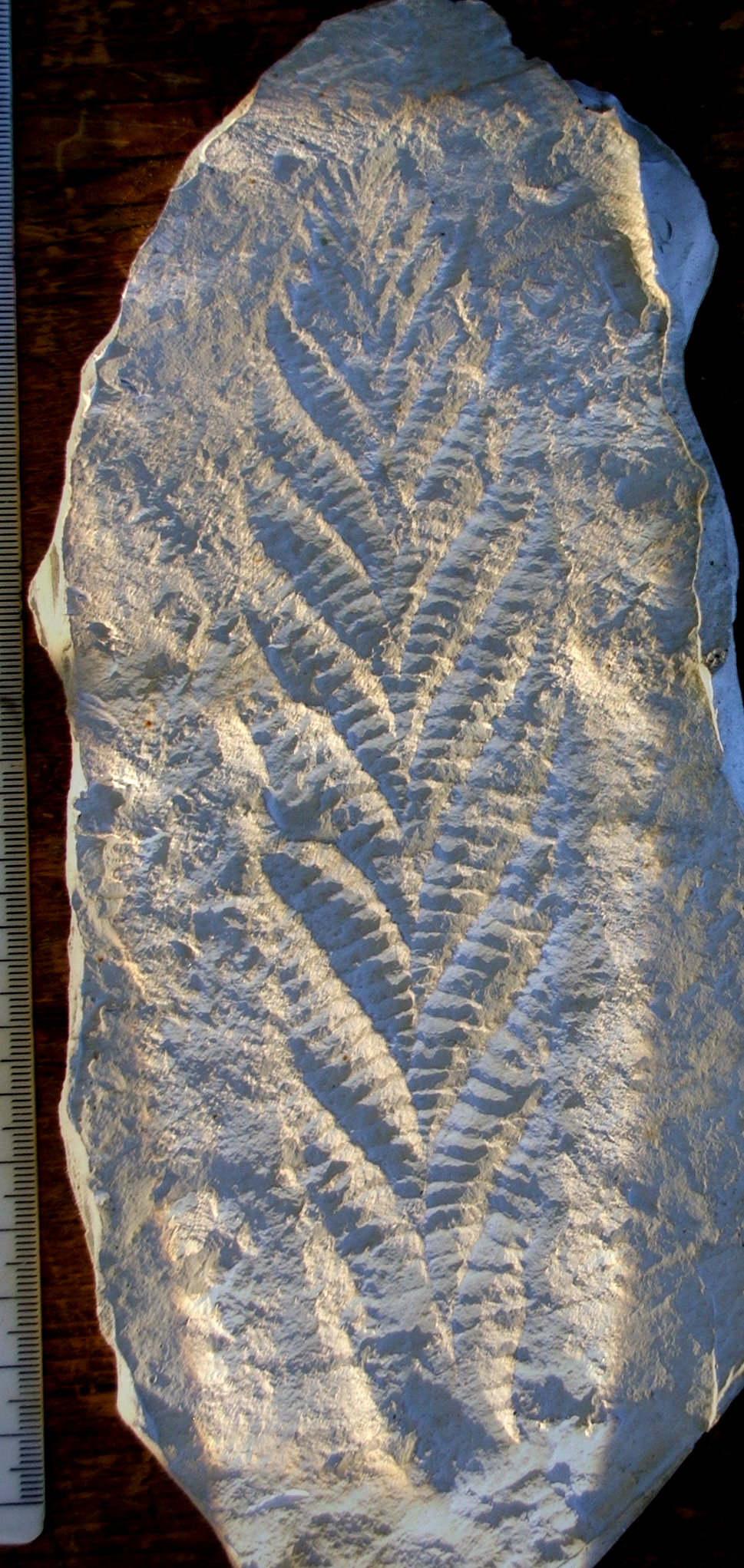 Ruler graduated in mm. The specimen is a cast of the holotype of Charnia masoni.